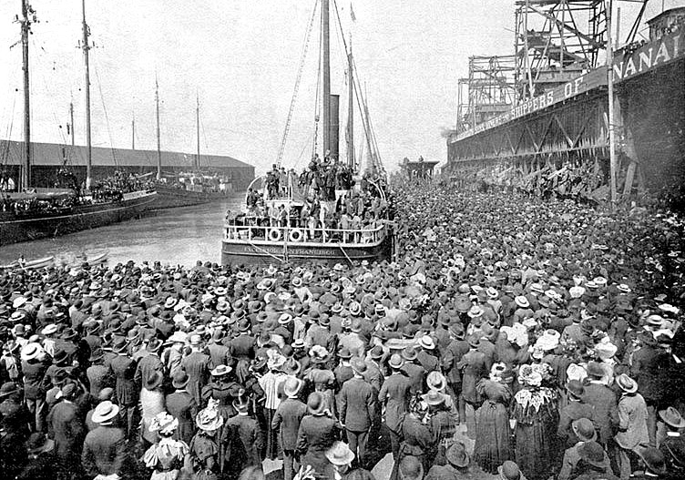 Steamer EXCELCIOR leaving San Francisco for the Klondike, July 28, 1897. Excelcior was the first steamer to carry pasengers to the Klondike after news of the discovery of gold in the Klondike was received. She was laden with 350 passengers and 800 tons of supplies.